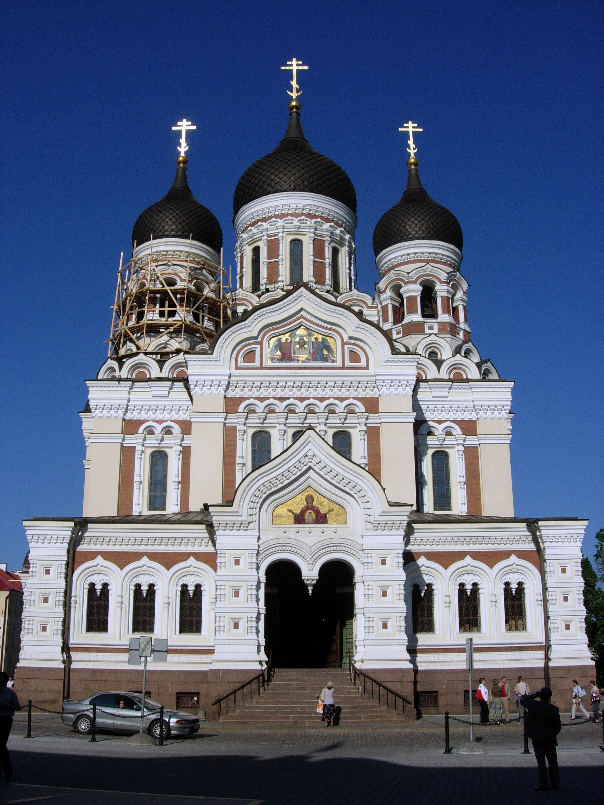 Alexander Nevsky Cathedral in Tallinn